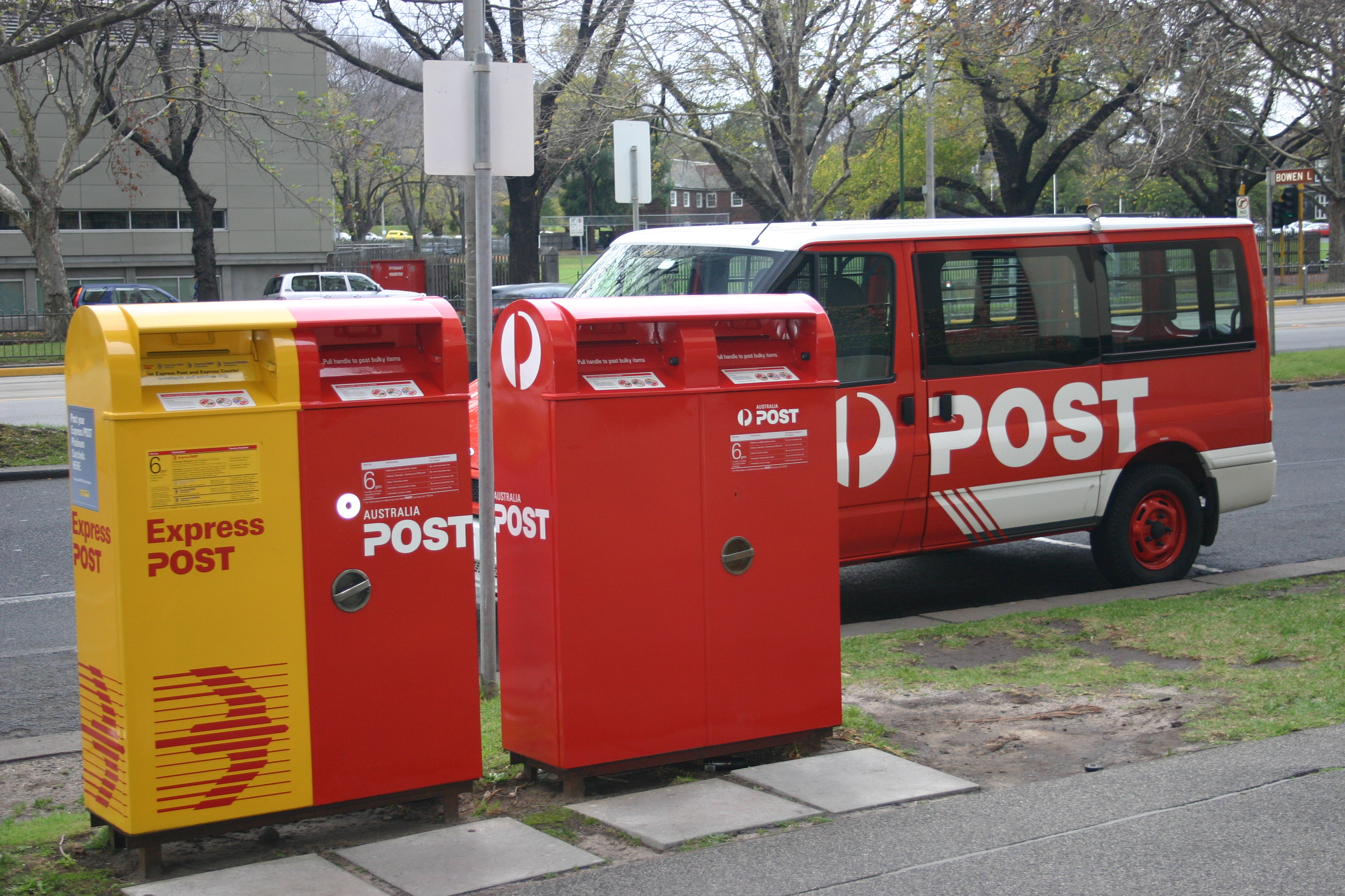 Australian post boxes owned and operated by Australia Post, with a delivery van parked behind giving some sense of scale.